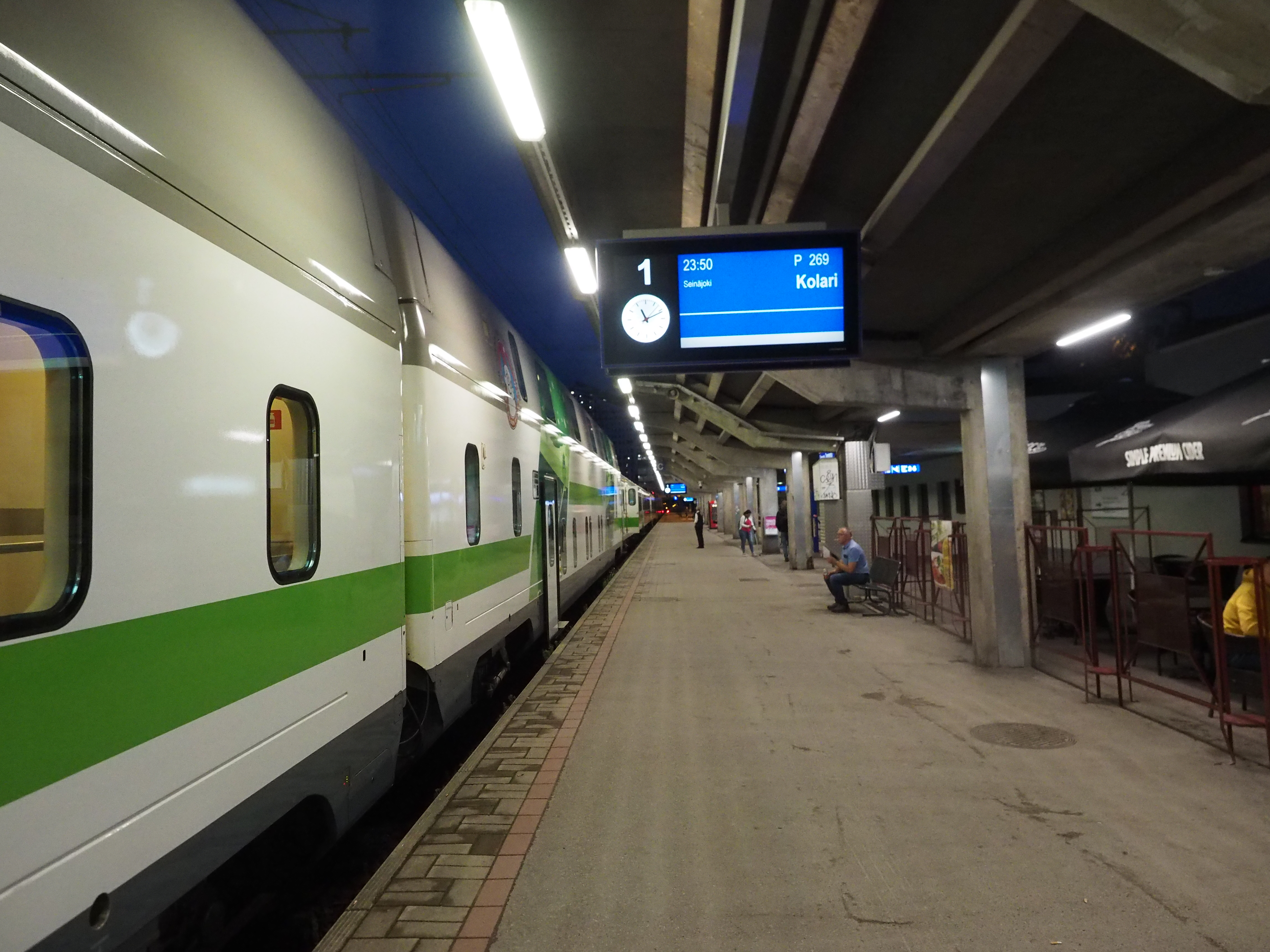 A Finnish long-distance train from Helsinki to Kolari stopping at Tampere in the middle of the night (11:10 PM local time). The train stops at Tampere for 40 minutes, giving adventurous passengers enough time to briefly visit the city. I had enough time to go to a bar in the city centre for one beer.